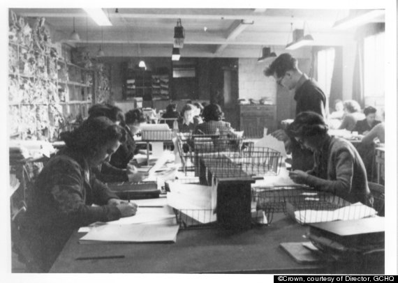 Women dutifully working in Bletchley Park.